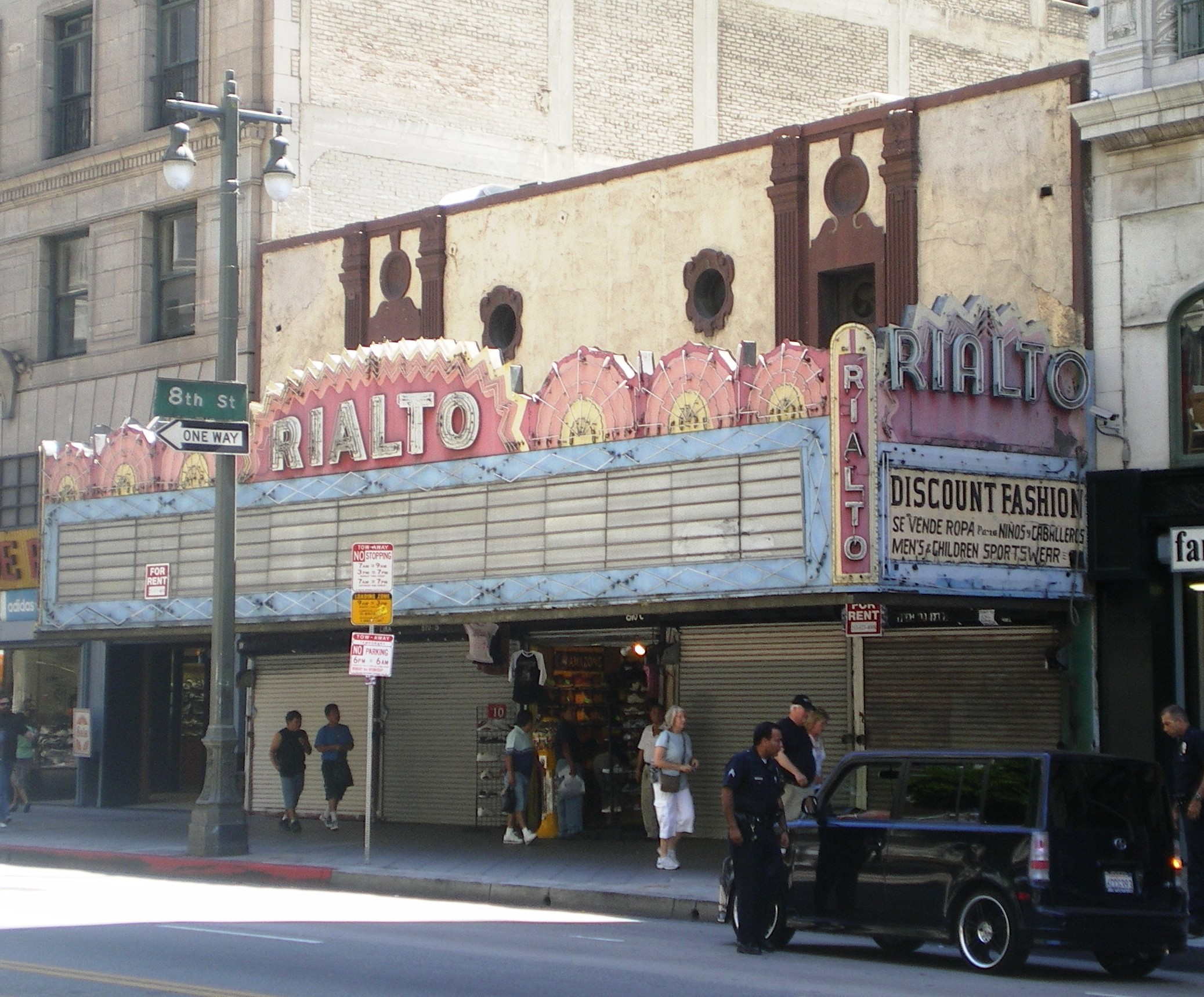 Rialto Theater, 812 S. Broadway, Los Angeles, California (part of the Broadway Theater and Commercial District)